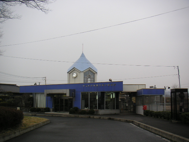 Yanagawa-kibonomori-koenmae Station, Date, Fukushima, Japan in Arpil 2006